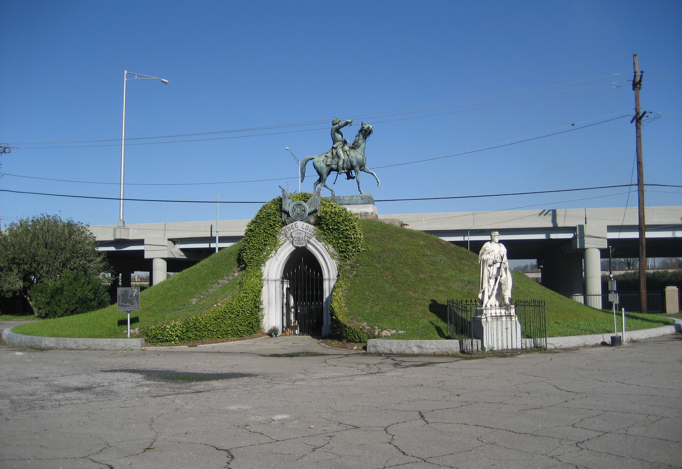 Metairie Cemetery, New Orleans Army of Tennessee Confederate tomb